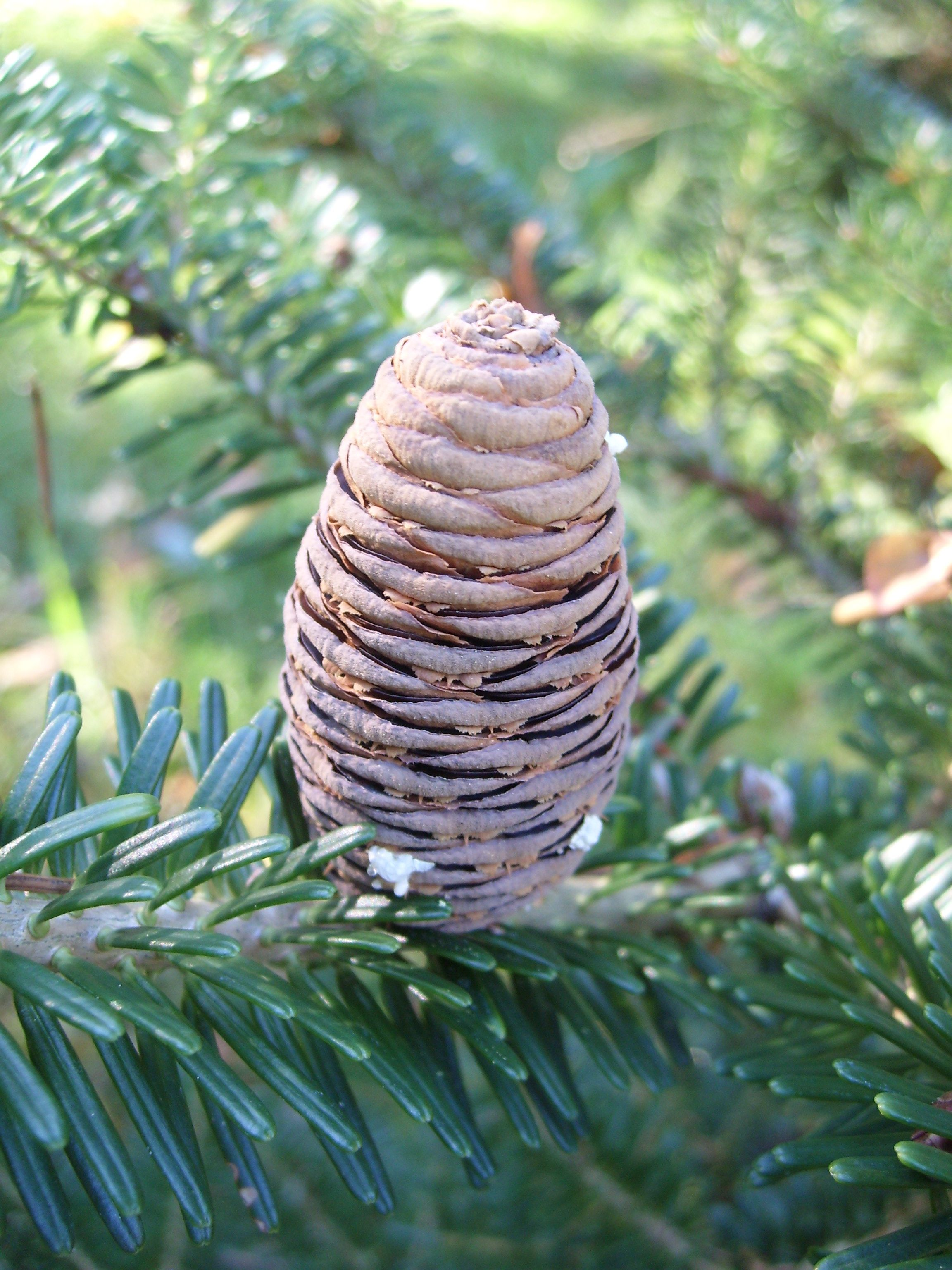 Cone of Abies nephrolepis (Manchurian Fir)